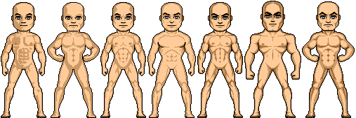 Micro Heroes Template